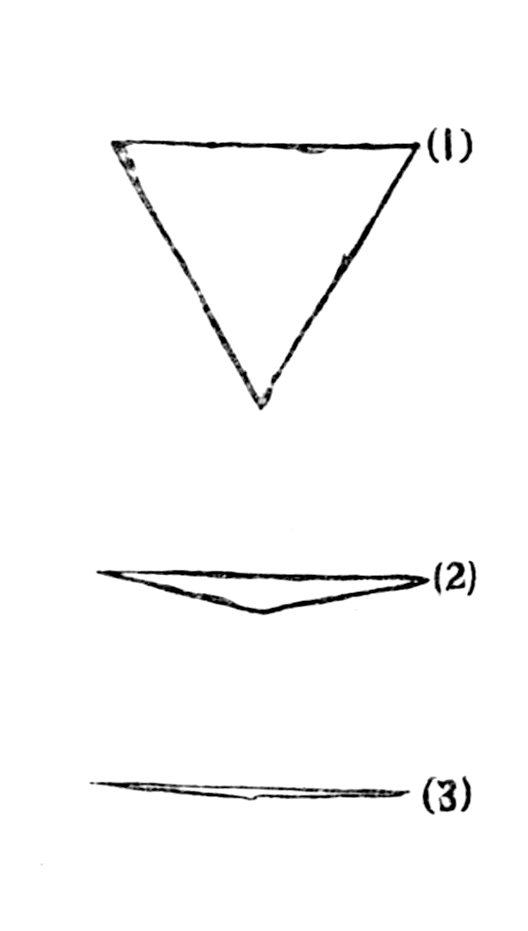 illustration from page 4 of Flatland